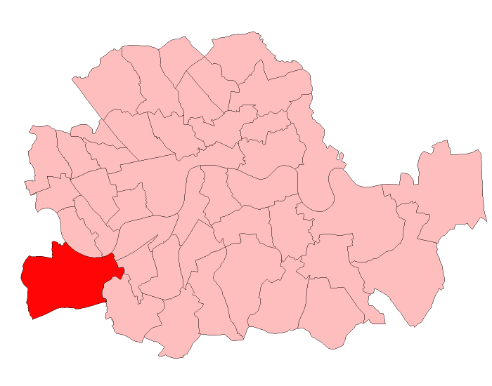 A map of Putney constituency within the London County Council area, as it existed from 1950 to 1974.